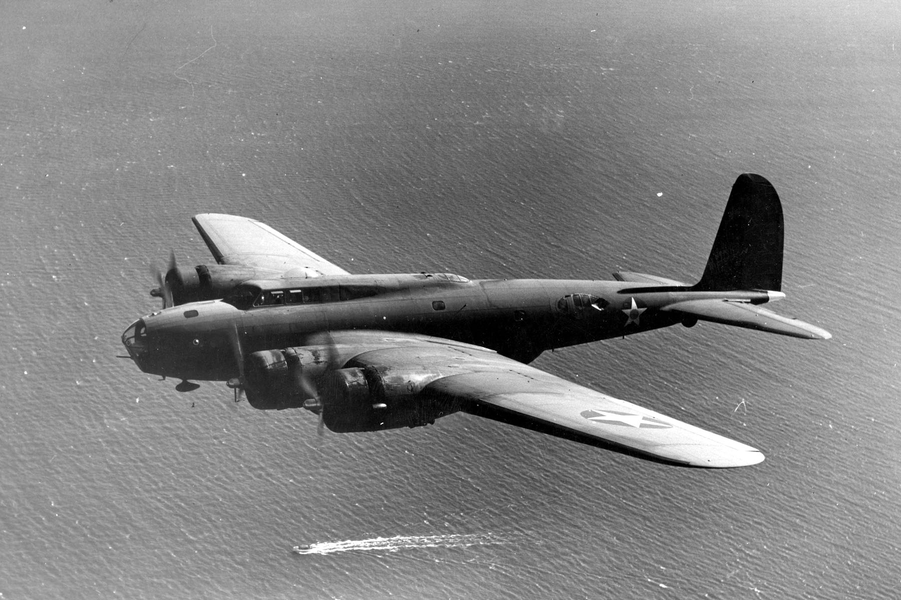 Boeing B-17D in flight. (For some reason, source page now identifies this as a "modified B-17B".)